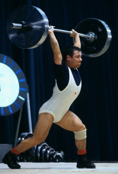 Yoshinobu Miyake at the 1964 Olympics